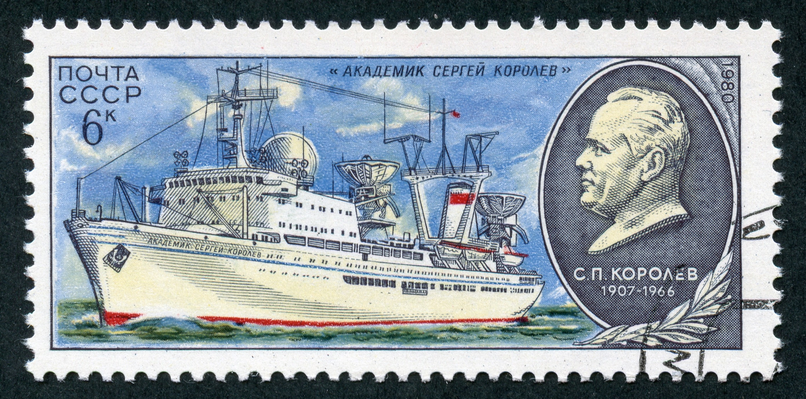 A USSR stamp